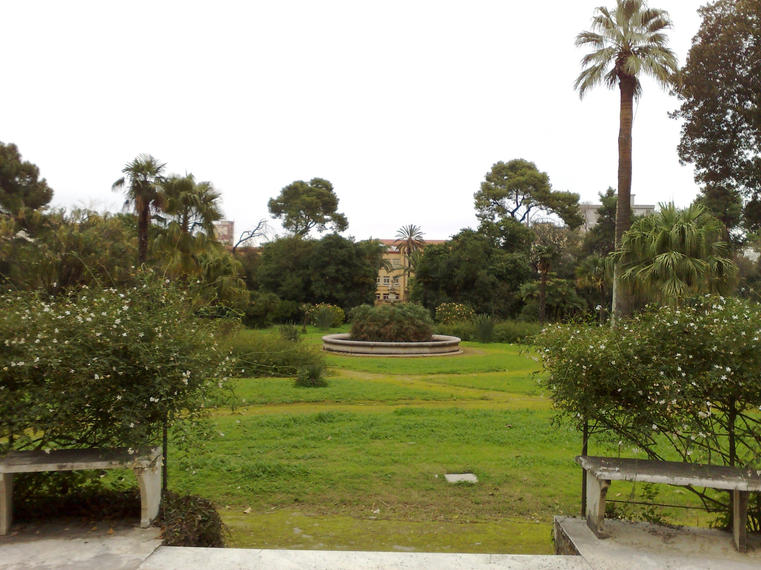 Villa Malfitano, Palermo, park